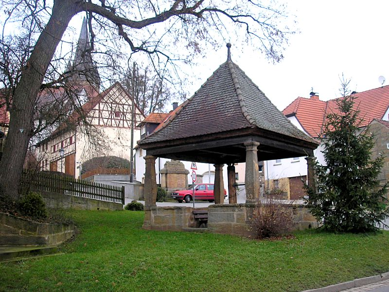 Mürsbach (Markt Rattelsdorf, Landkreis Bamberg, Upper Franconia, Germany). The historic village well